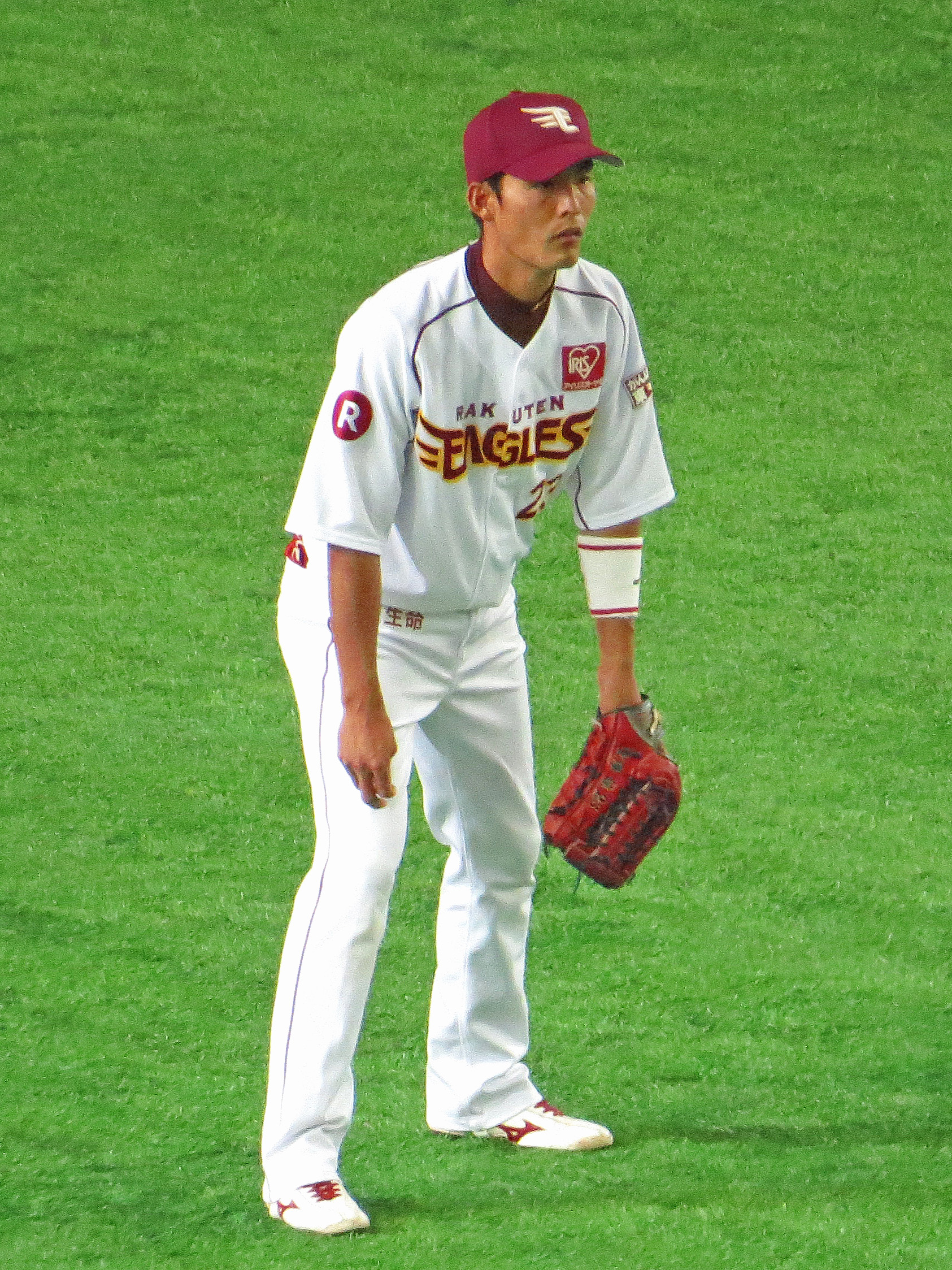 Ryo Hijirisawa, outfielder of the Tohoku Rakuten Golden Eagles, at Tokyo Dome